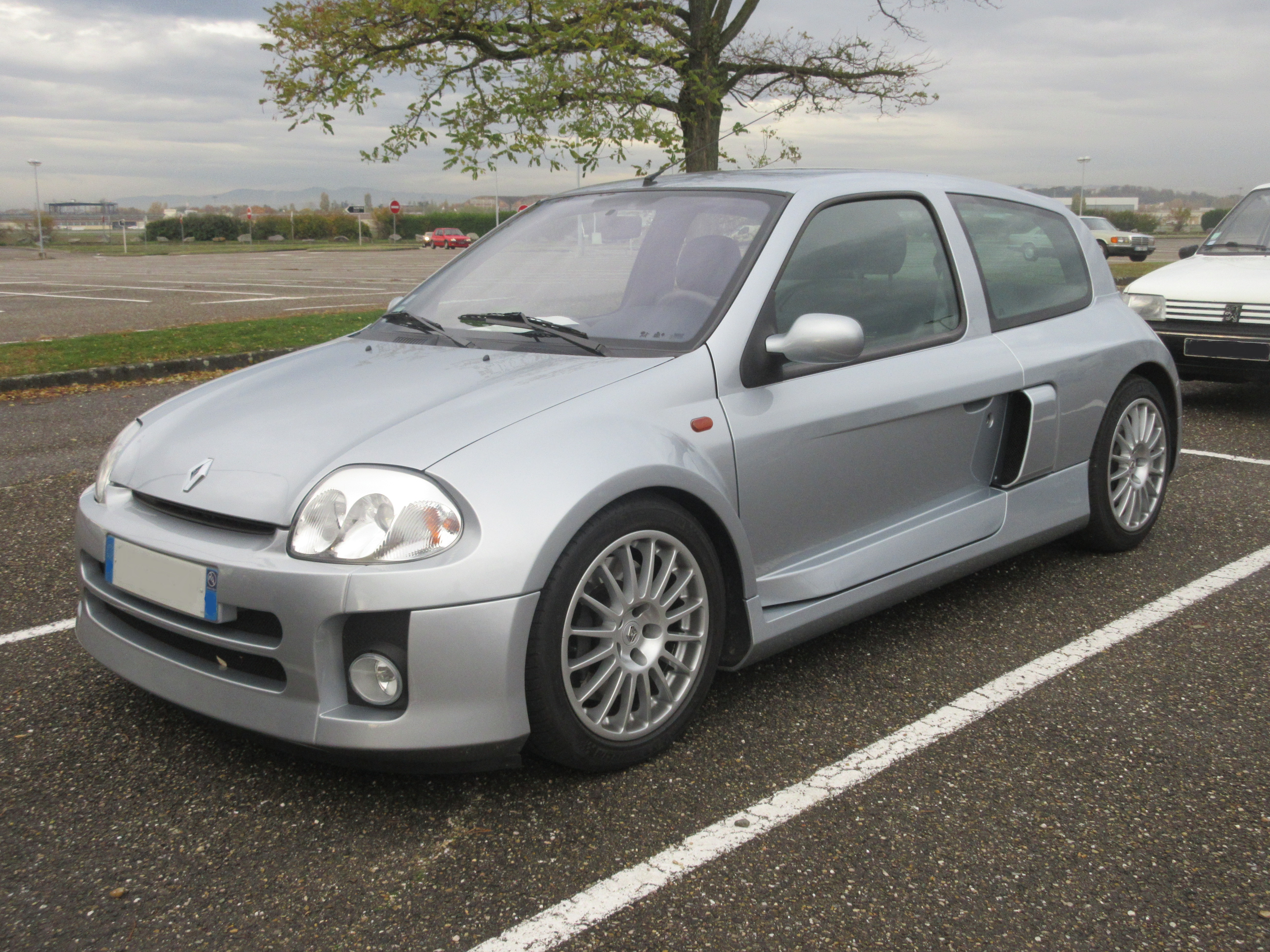 Subject: Renault Clio V6 Ph1 Author: Luc106 Date:November 9th, 2018 Event: Epoqu'Auto 2018 Place/Country: Foire du Lyon, Chassieu (France) I release all rights in the public domain. Licensing